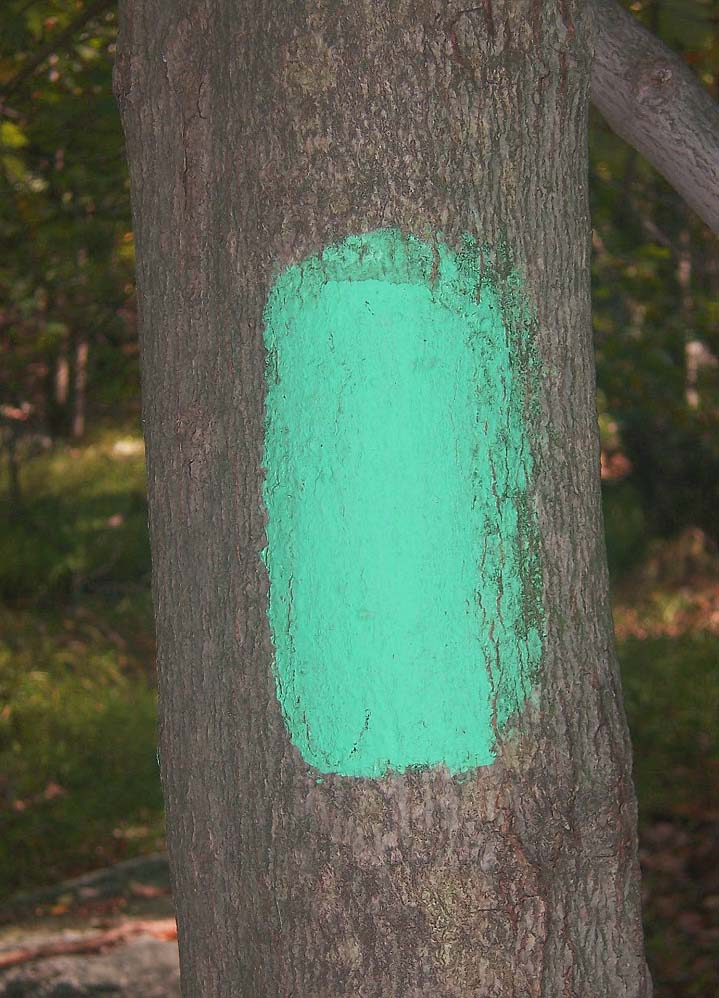 Photographed in the Bear Hill Nature Preserve, Cragsmoor.